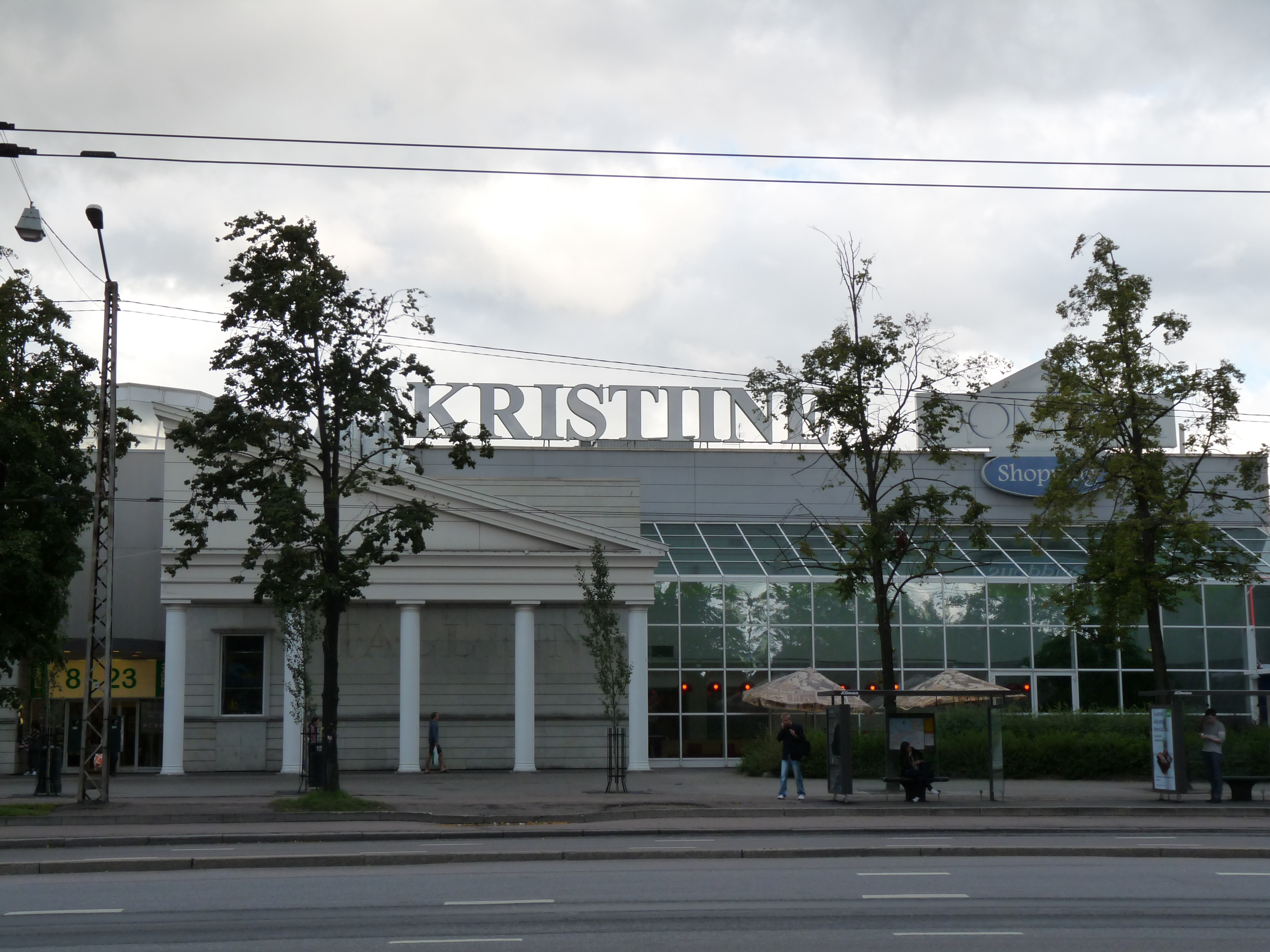 Kristiine trade center in Tallinn